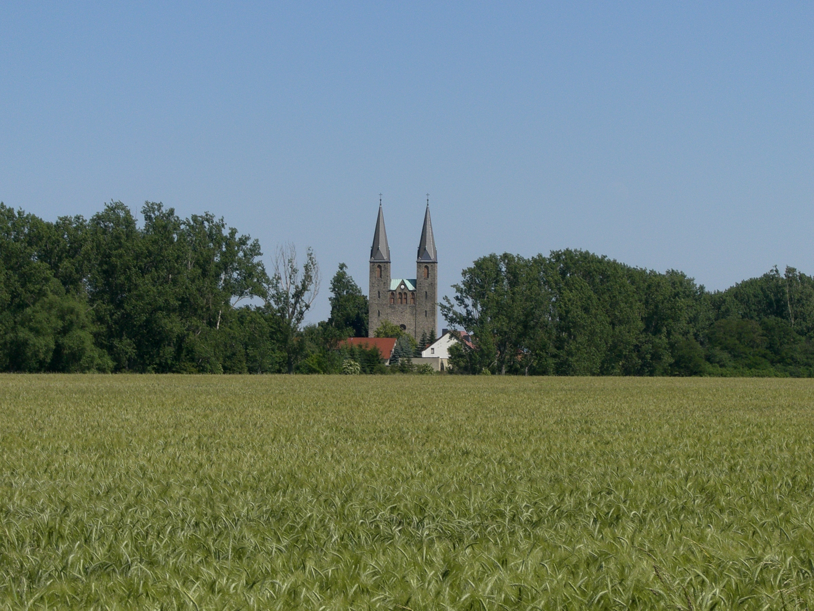 Westwork of the church of Hillersleben monastery as seen across the Ohre river, Saxony-Anhalt, Germany